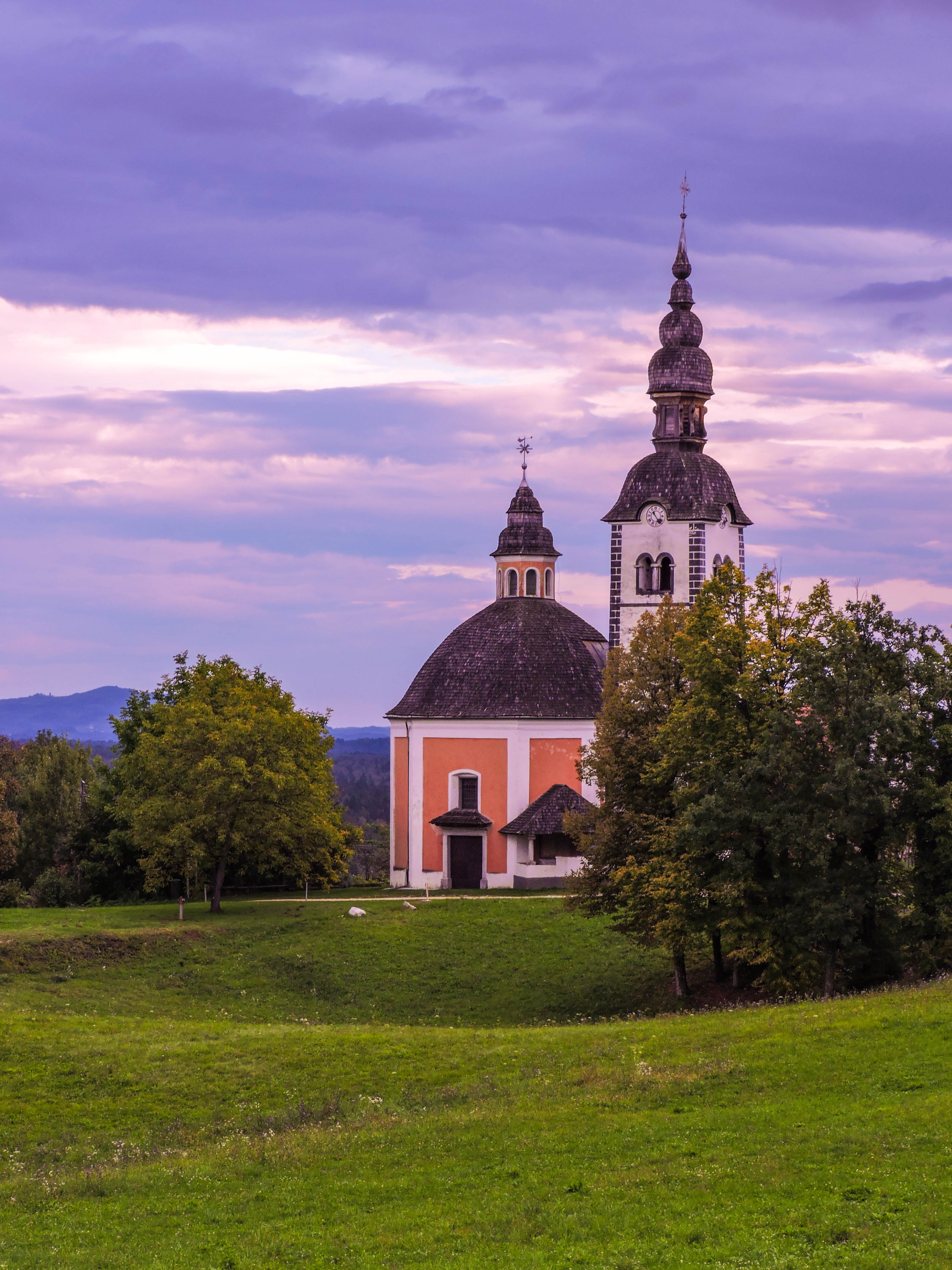 The church was built in 1647 and is a pilgrimage church. It has 8 sides and a dome shaped roof covered in shingles. The main altar is one of the biggest in Bela krajina it is gold-plated and occupies the whole presbytery. There are also two side altars in baroque style. The church is closed most of the year and is generally only opened on pilgrimage days.